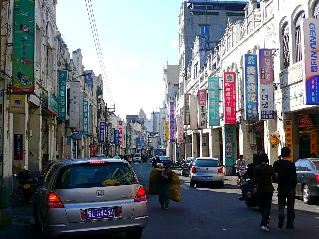 Bo'ai Road area in Haikou city, Hainan, China. The old shopping area.